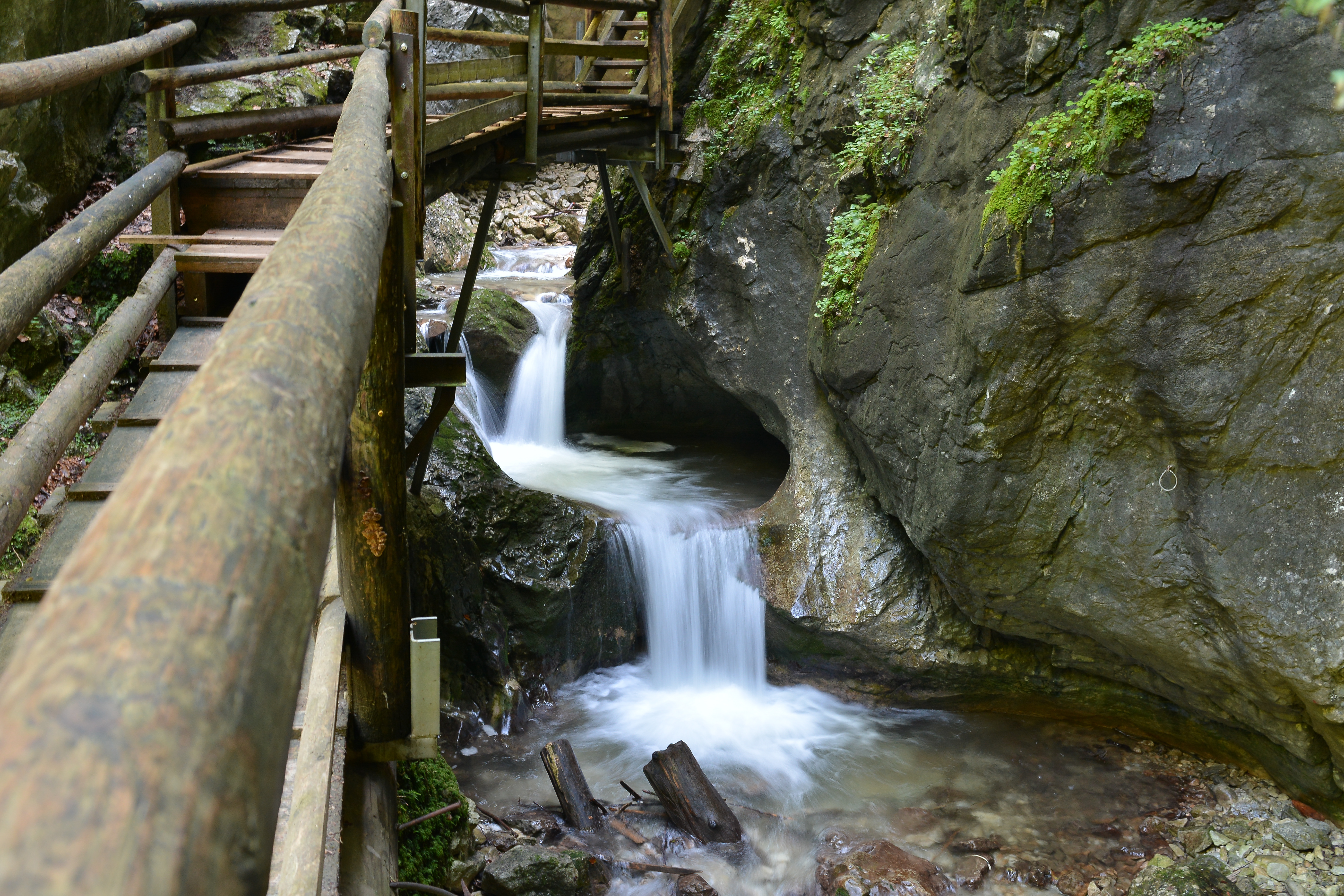 The ravine Dr.-Vogelgesang-Klamm is in the second place among the longest ravines in Austria which can be accessed by walkers. It is named after the medical practitioner Dr. Vogelgesang who was the initiator of erection of the pedestrian bridges trough the ravine. This media shows the natural monument in Upper Austria with the ID nd181.